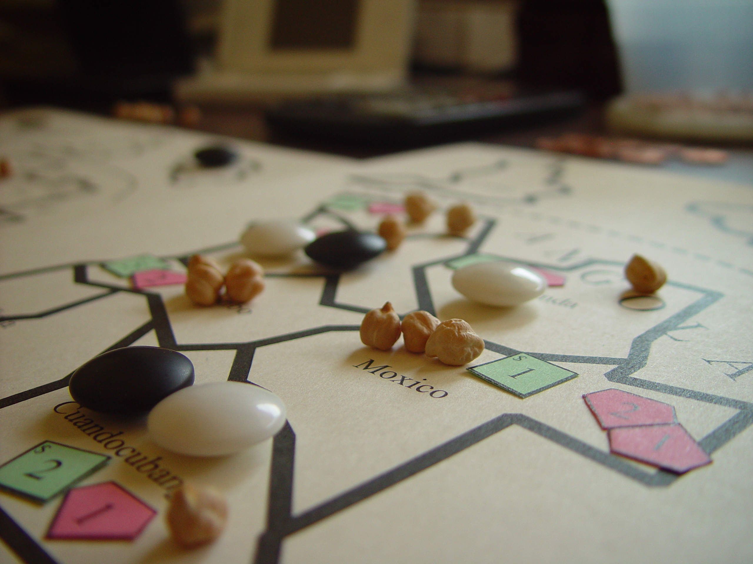 Diamond Trust of London paper prototype. Released in 2012, the game was developed by Jason Rohrer, with music by Tom Bailey. The game and its supporting assets have been released into the public domain and is hosted on SourceForge at (license) Rohrer prototyped the game on paper before committing to code. A zoomed out photograph of the same scene is available at File:Diamond Trust of London - Paper Prototype.jpg.